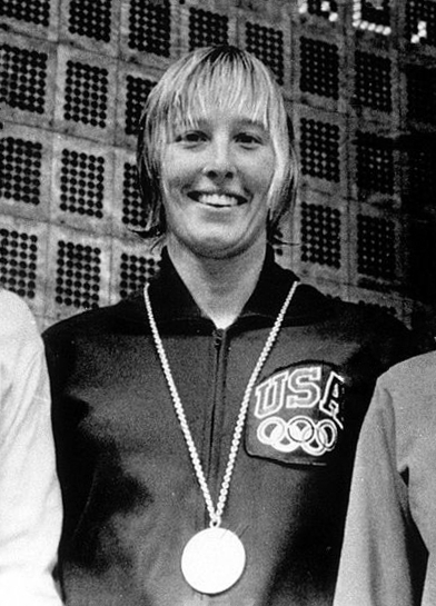 1972 Wire Photo Top 3 Winners Diving Olympics